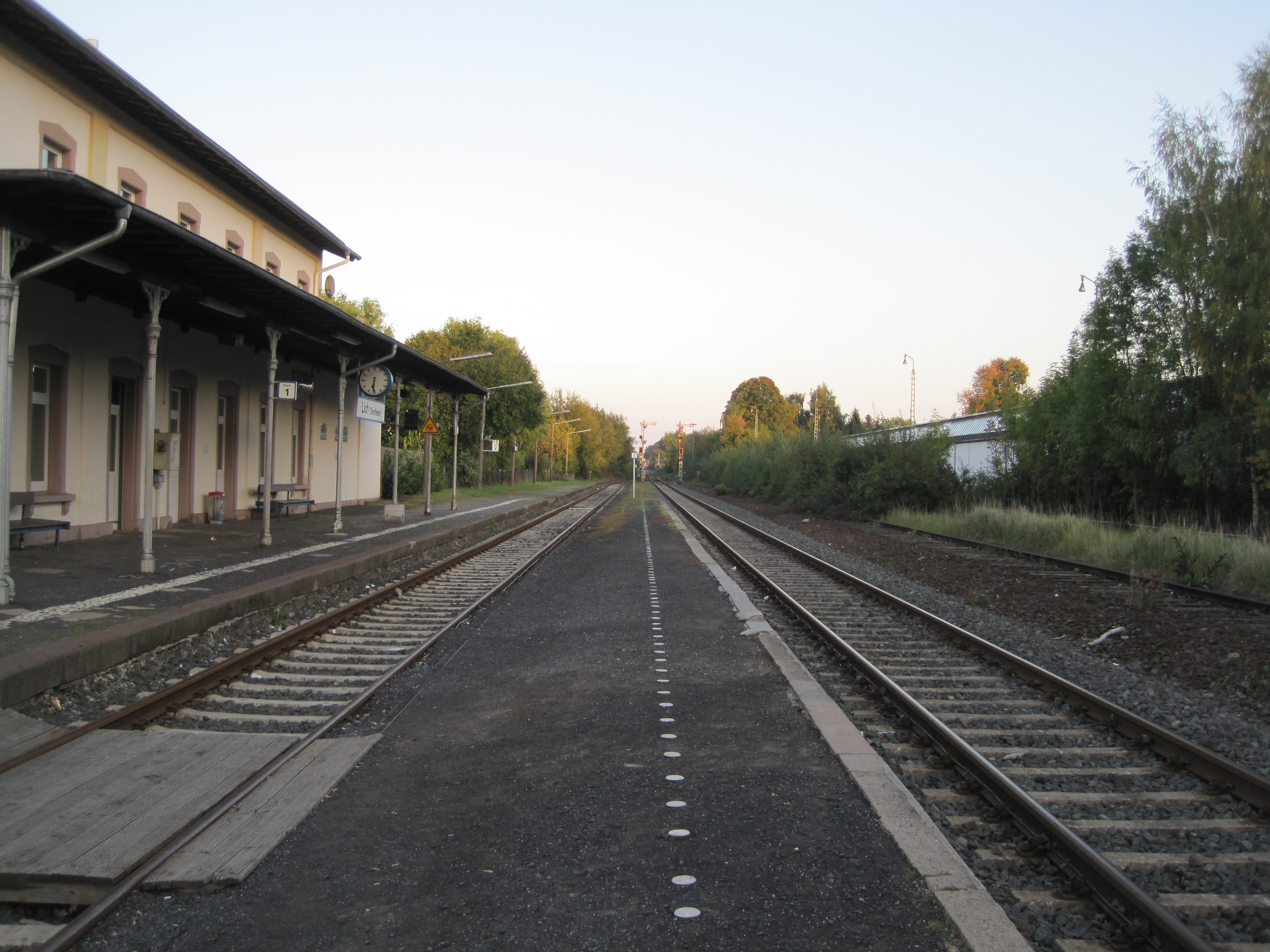 Lich (Oberhess) station, Lich, Germany check usage